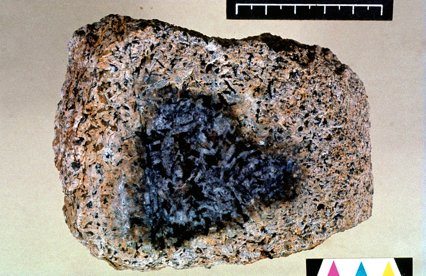 Bauxite with core of unweathered parent rock; Kassa, Guinee